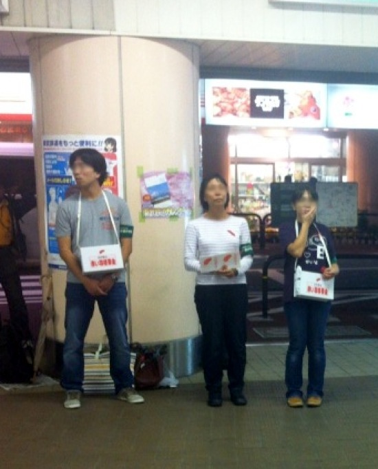 Akai hane kyoudou bokin (Japanese charity)